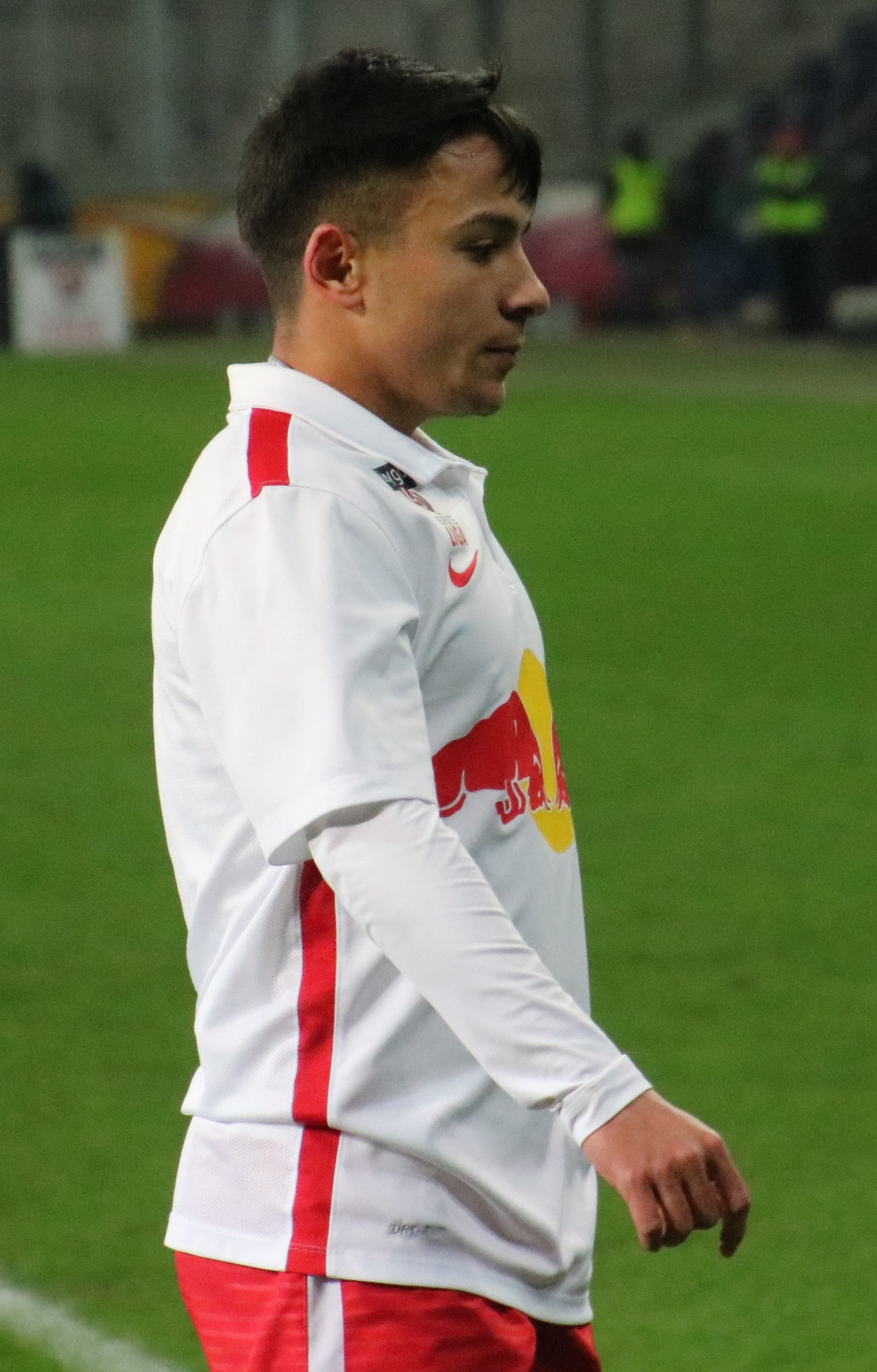 league match Austria 2nd league